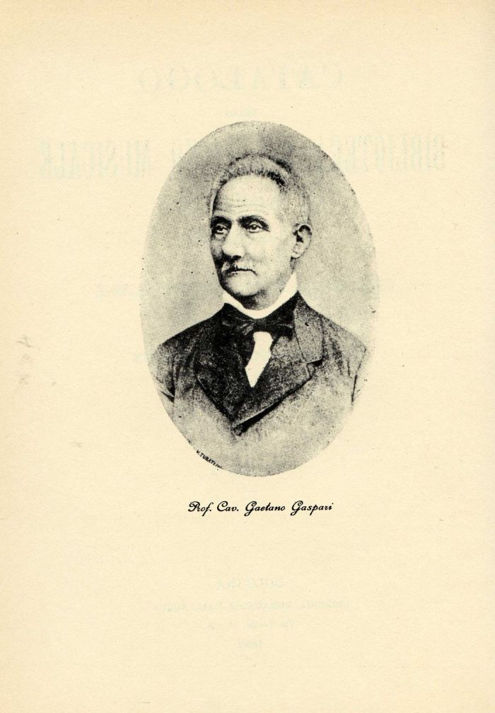 Picture of Gaetano Gaspari